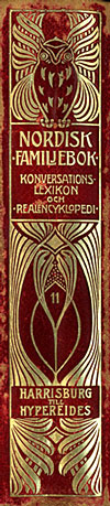 The image was transferred from sv.wiki, see Bild:Bokrygg för uggleupplagan.jpg. It represents the image of one of the copies of the Nordisk familjebok, whose copyright expired. The Nordisk familjebok is part of the Projekt Runeberg, a public domain one.